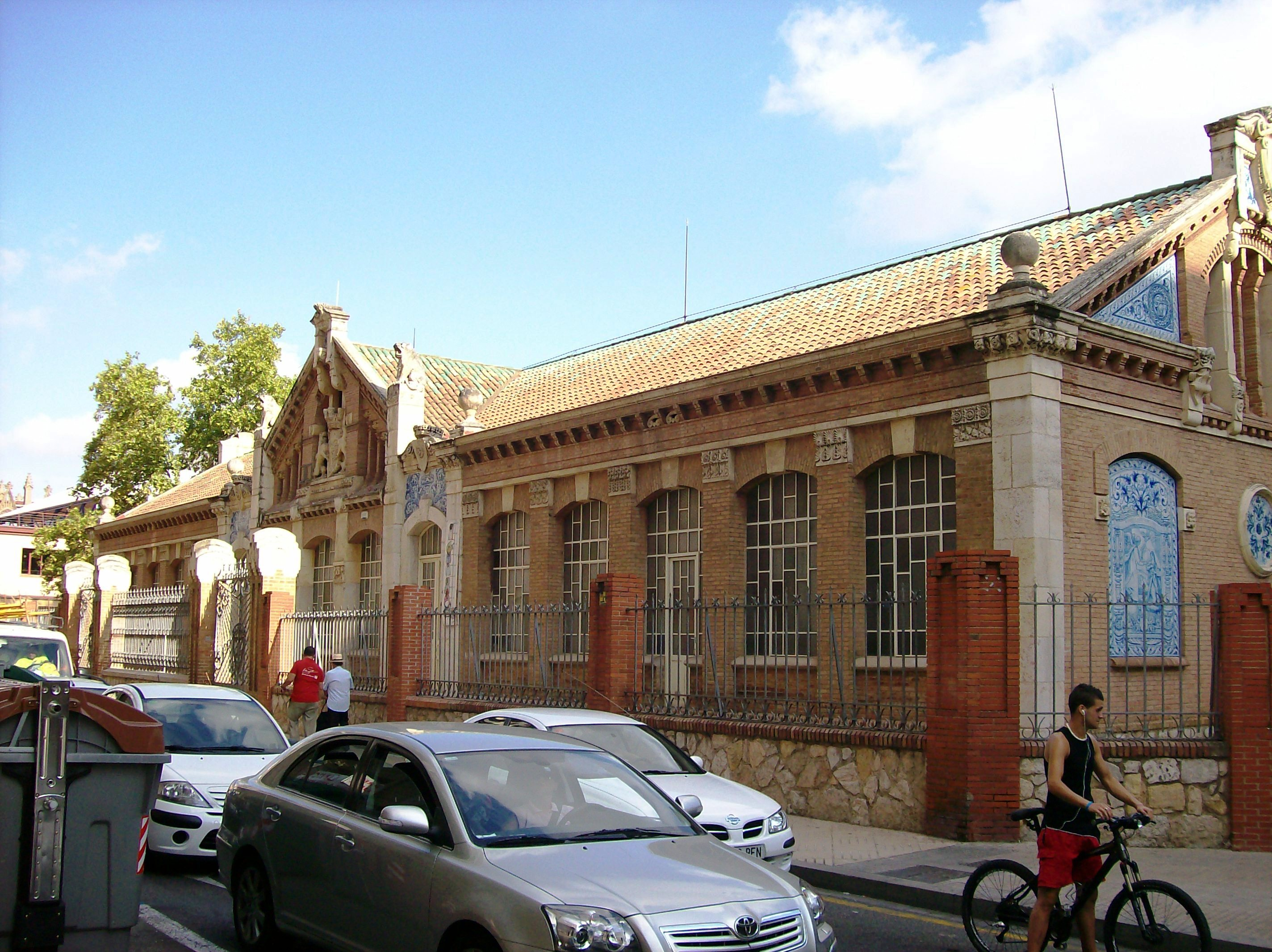 Escoles Prat de la Riba. Architect Pere Caselles i Tarrats. 1911. 36 Avinguda Prat de la Riba